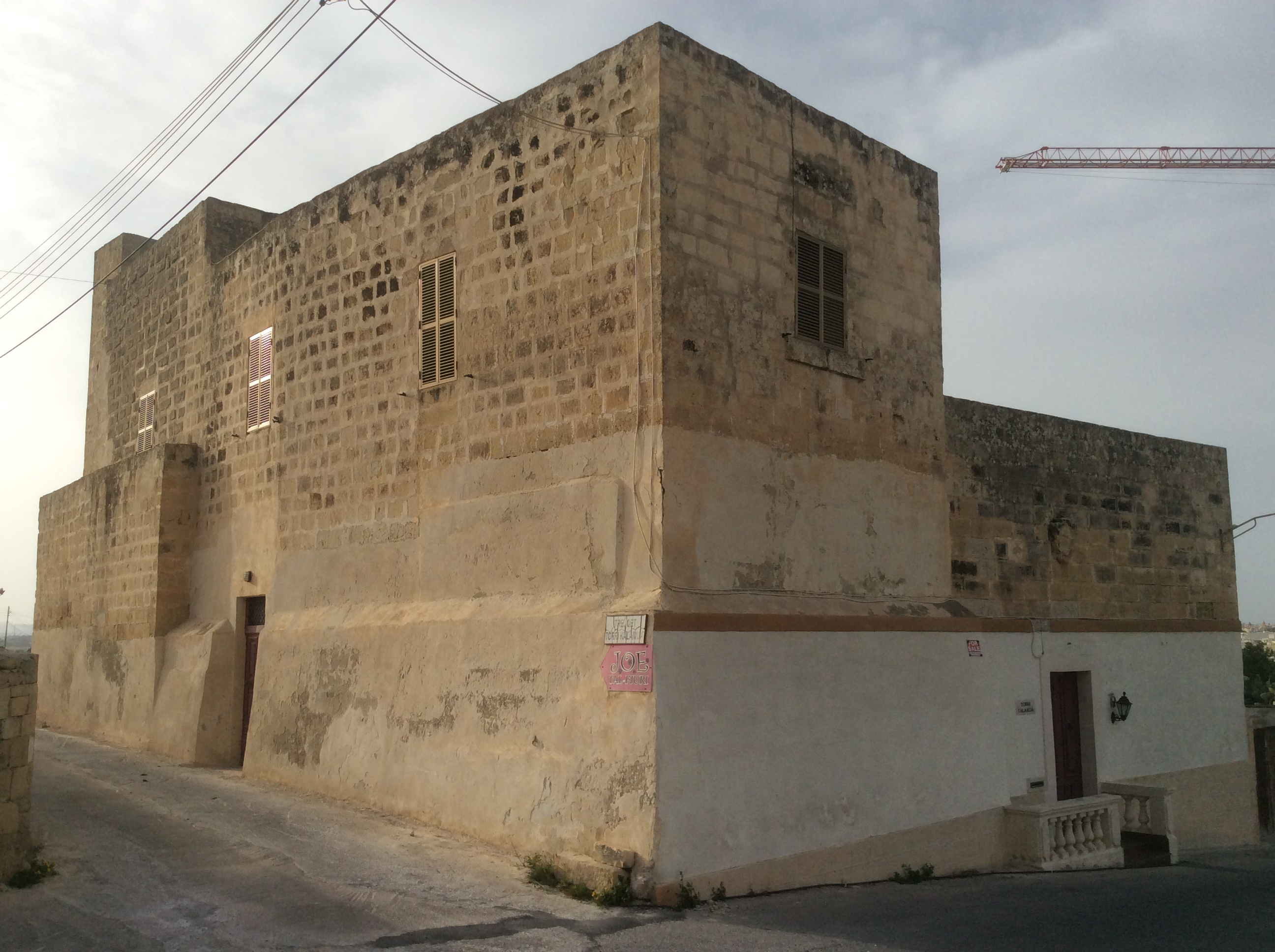 Kalamija Tower